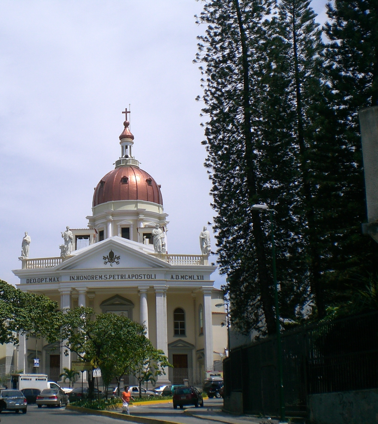 St. Peter´s Church, Caracas, Venezuela